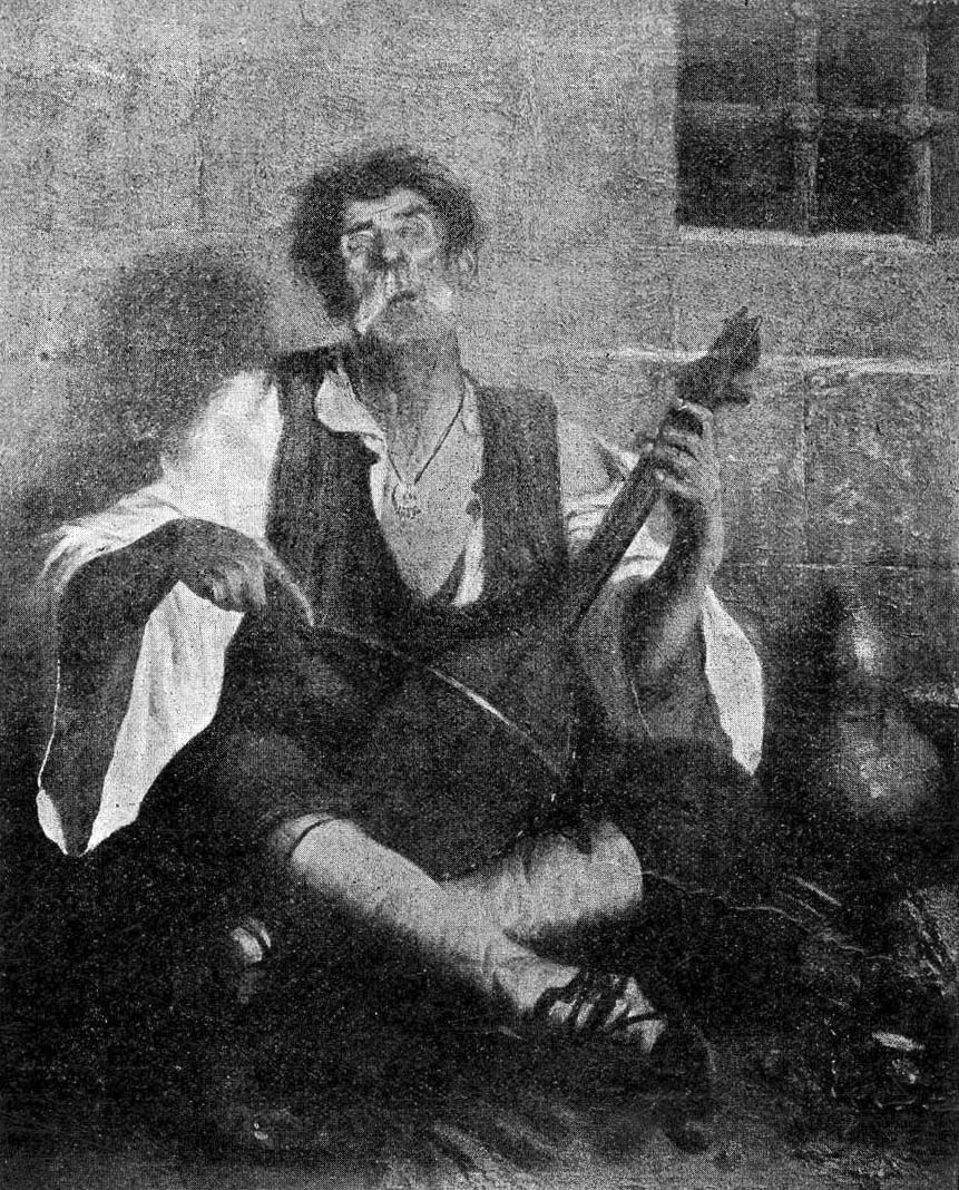 Guslar, copy of painting by Rista Vukanović.